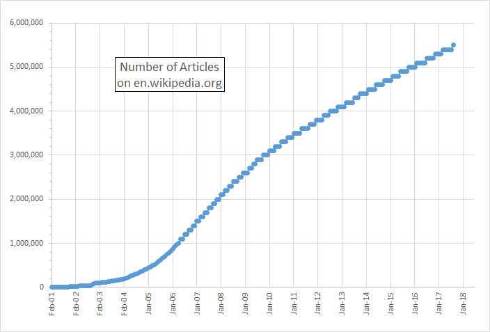 Number of articles on